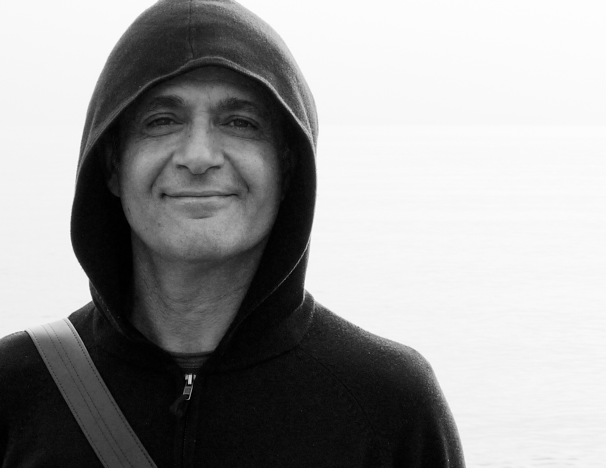 Eryck Abecassis photographed in Saint Raphael, France at the Beach.